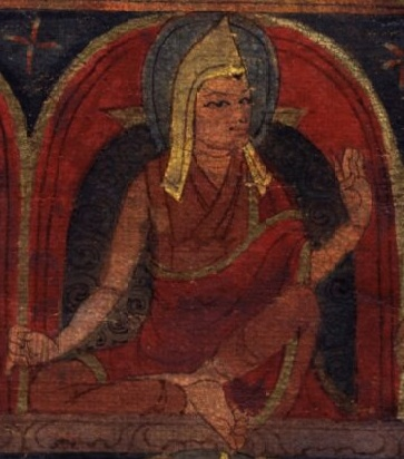 Duldzinpa Takmapa Kawa Darseng, 12th Century Kadam Monk